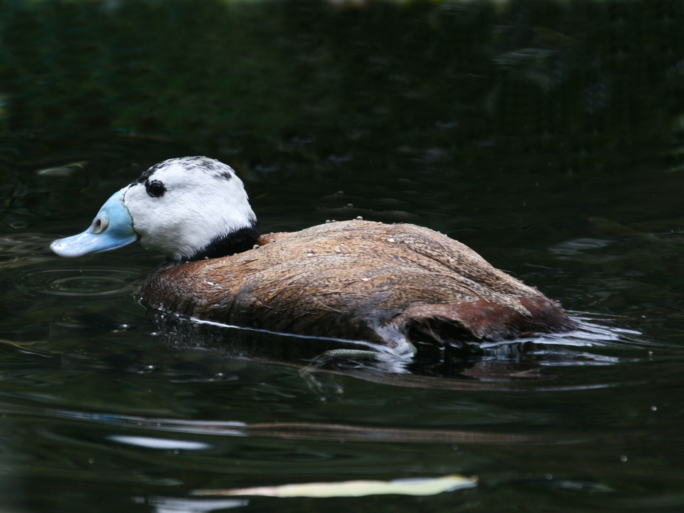 A male White-headed Duck at Miami Metrozoo, Florida, USA.